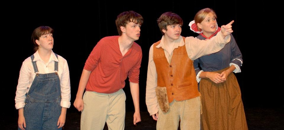 A photo from the 2012 Minnesota Fringe Festival, from a musical called The Donner Party Kidz! performed at The Playwrights' Center. Pictured (left to right) are Ana Martin, Trevor Harty, Theo Linder, and Ruth Kendrick.